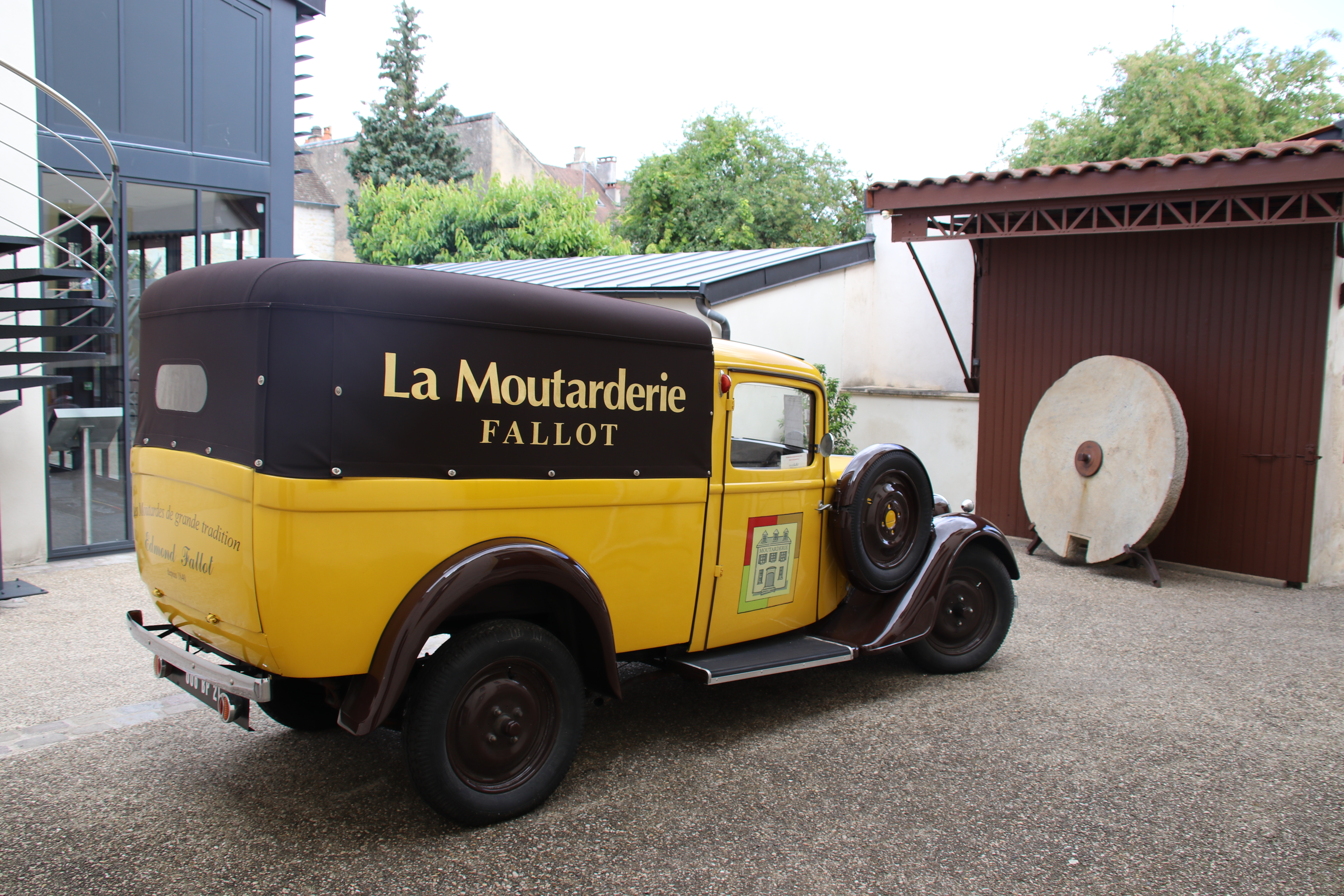 Car from mustard mill Fallot